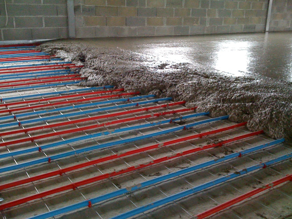 solar floor